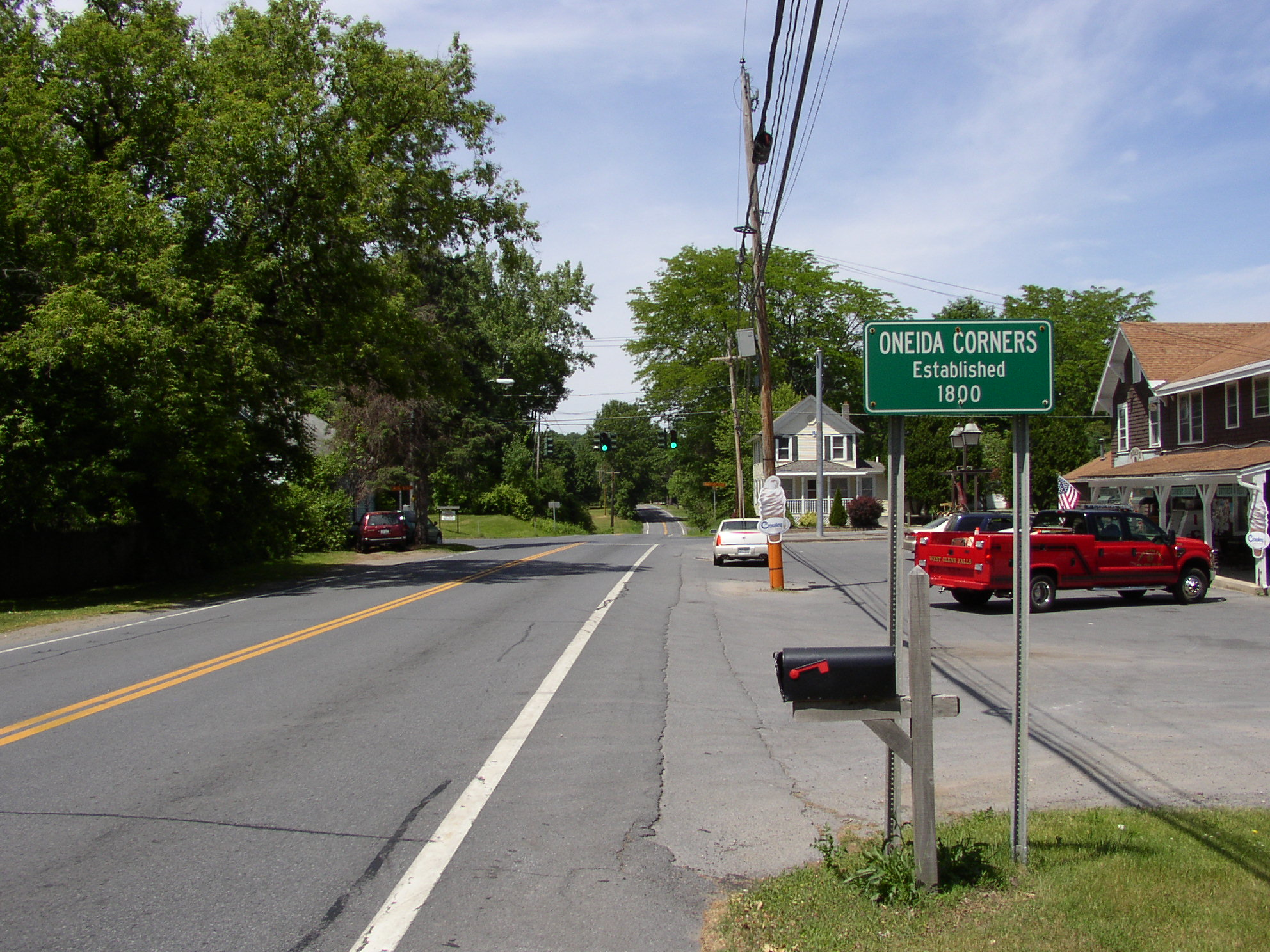 Oneida Corners, a hamlet of Queensbury, Warren County, New York. View from Route 9L facing north toward the intersection of New York State Route 9L, County Route 39, and County Route 54.